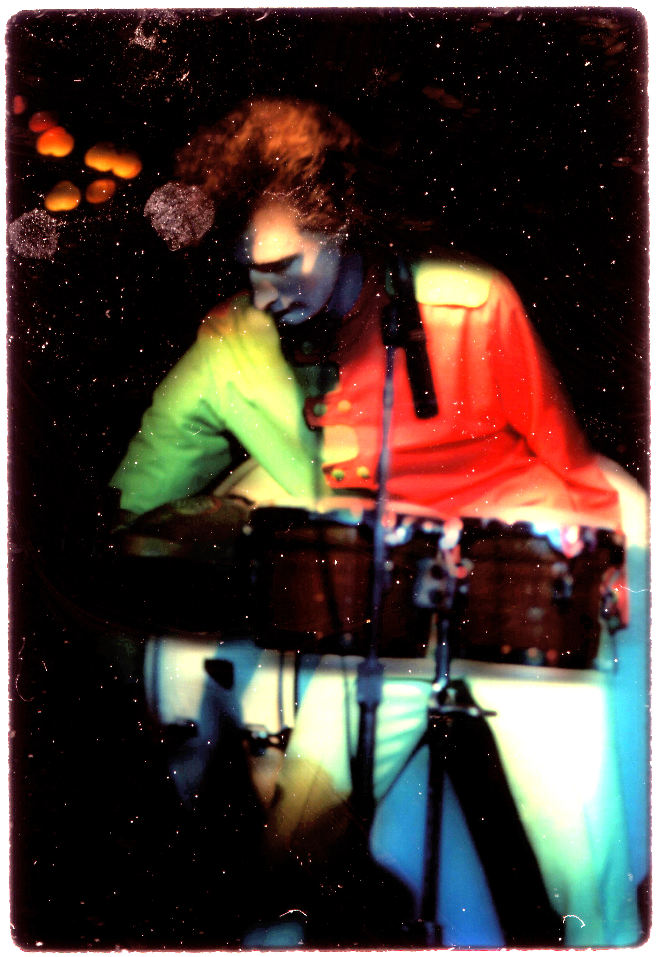 True Colours Tour, Commodore Ballroom. Taken by David Cran.